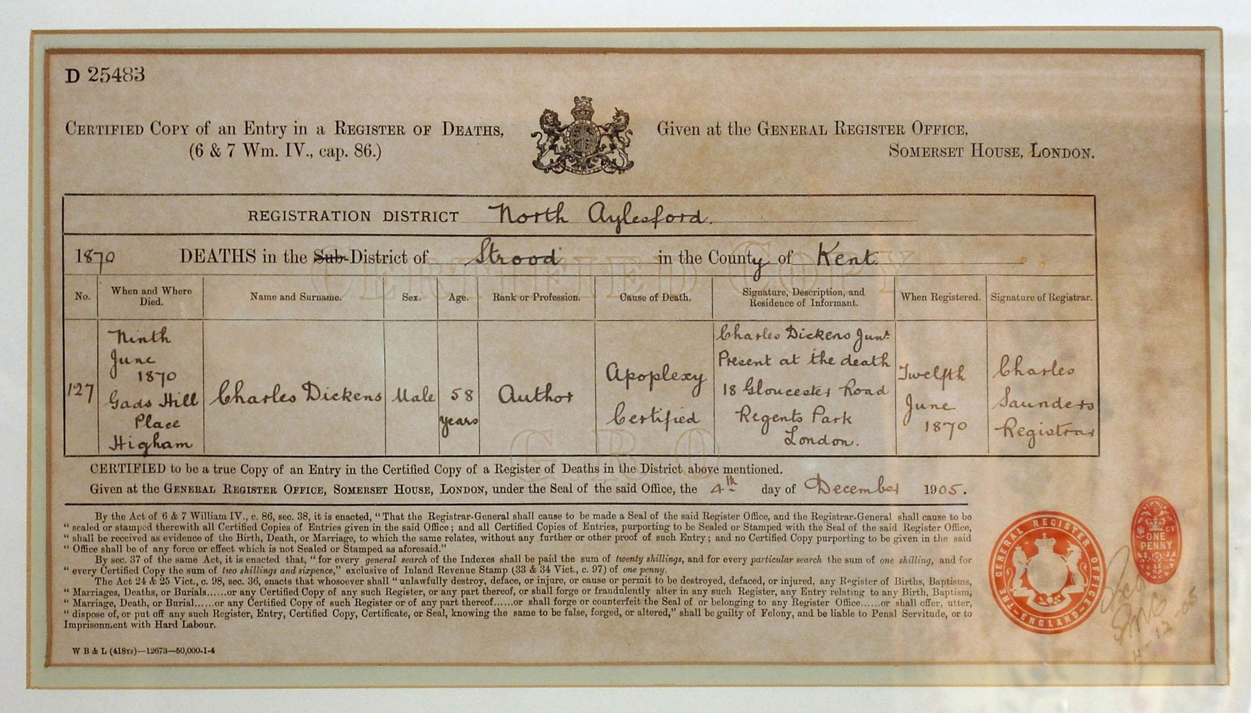 A certified copy of the death certificate of Charles Dickens, on display at the Charles Dickens' Birthplace Museum, Old Commercial Road, Portsmouth, Hampshire, UK.